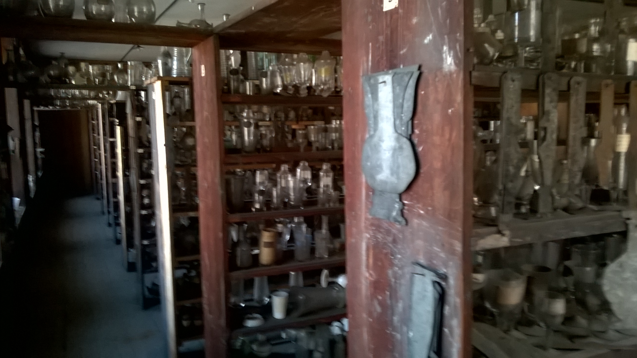 300 years of models at Vallérysthal crystal manufactory